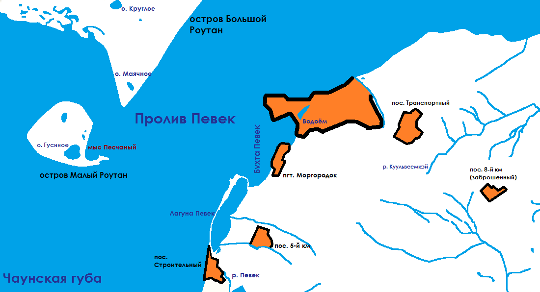 Map of Pevek (Russia)